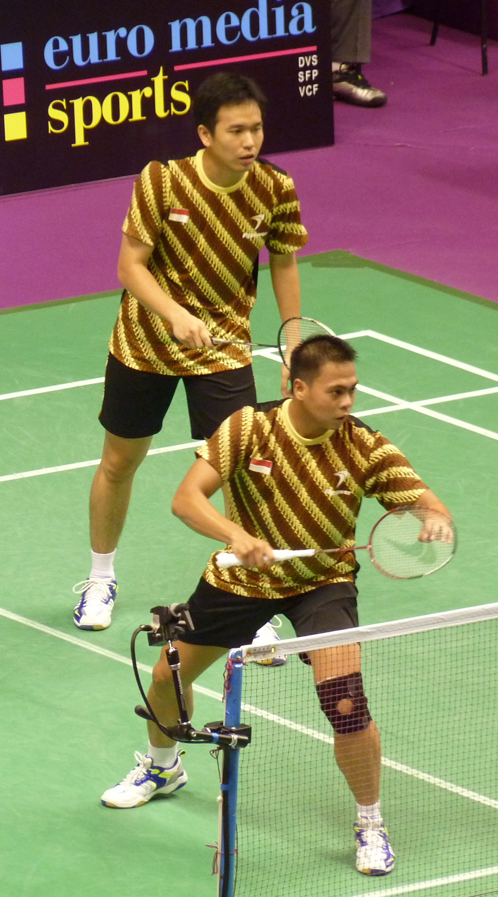 Hendra Setiawan & Markis Kido (Indonesia)